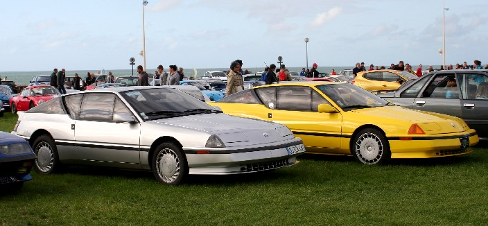 Alpine US Vorserie